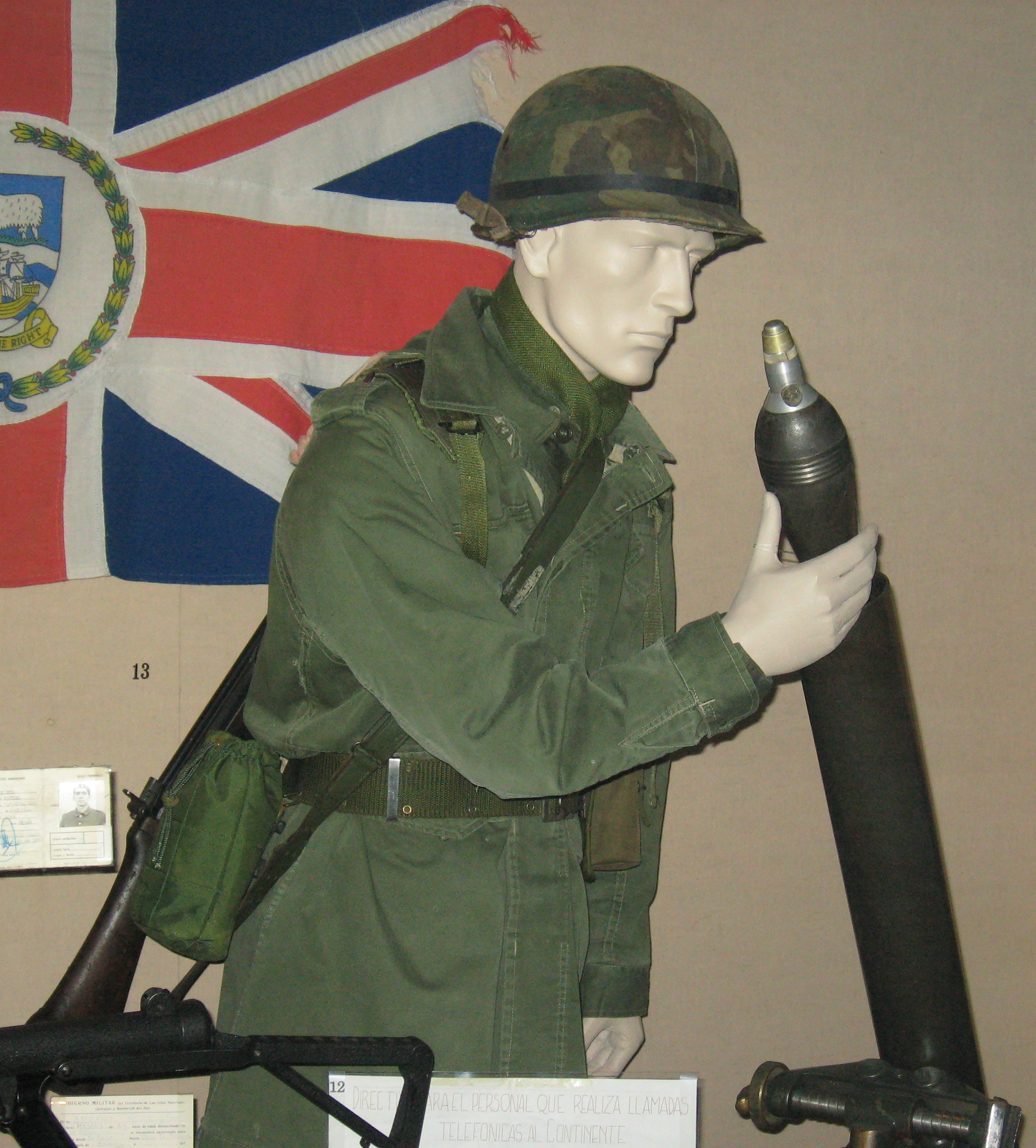 An Argentine mortar in the Imperial War Museum. I can't remember what type of mortar it was, possibly 81mm?